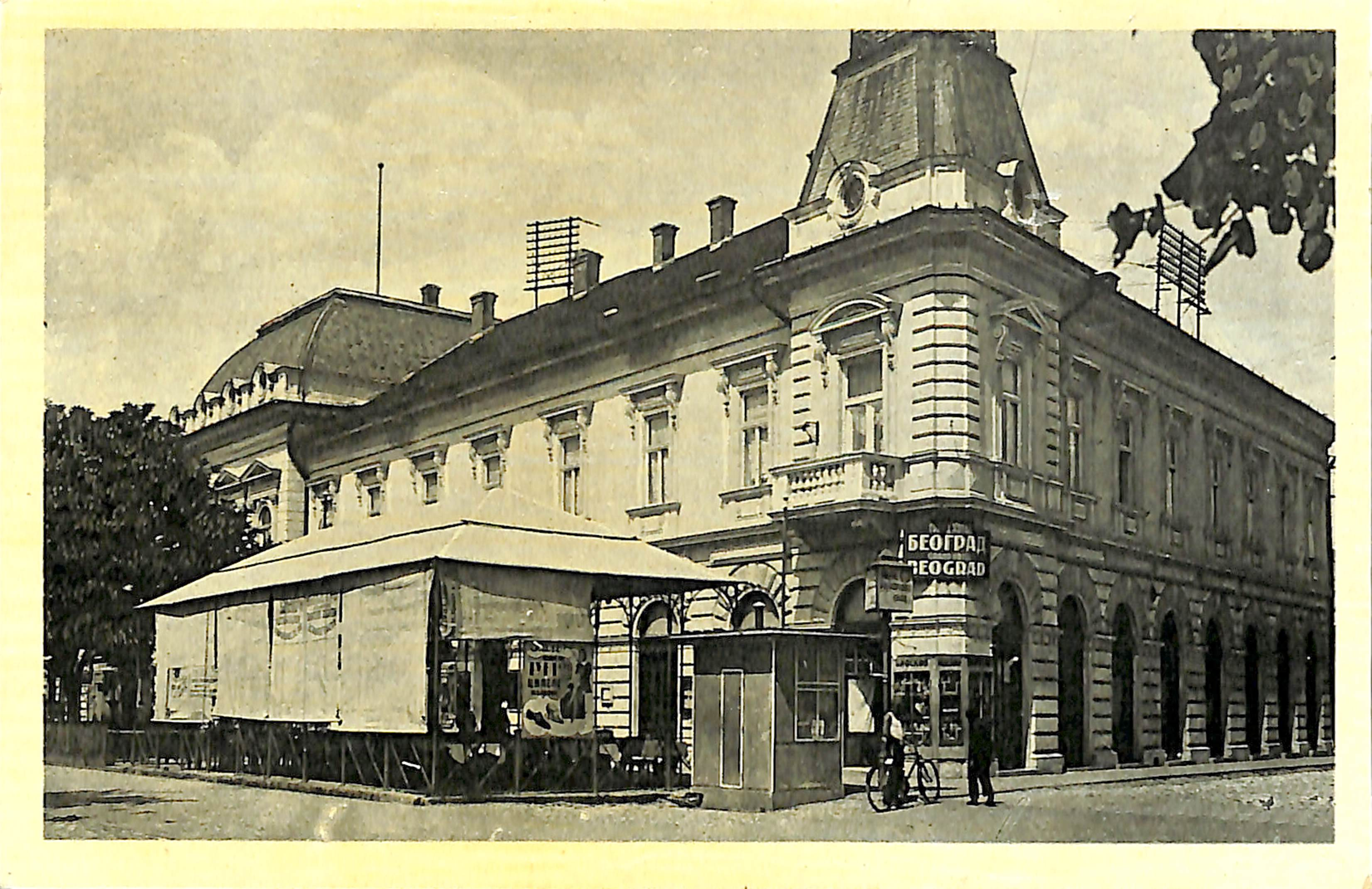 Staff building of the German-Banat border guards